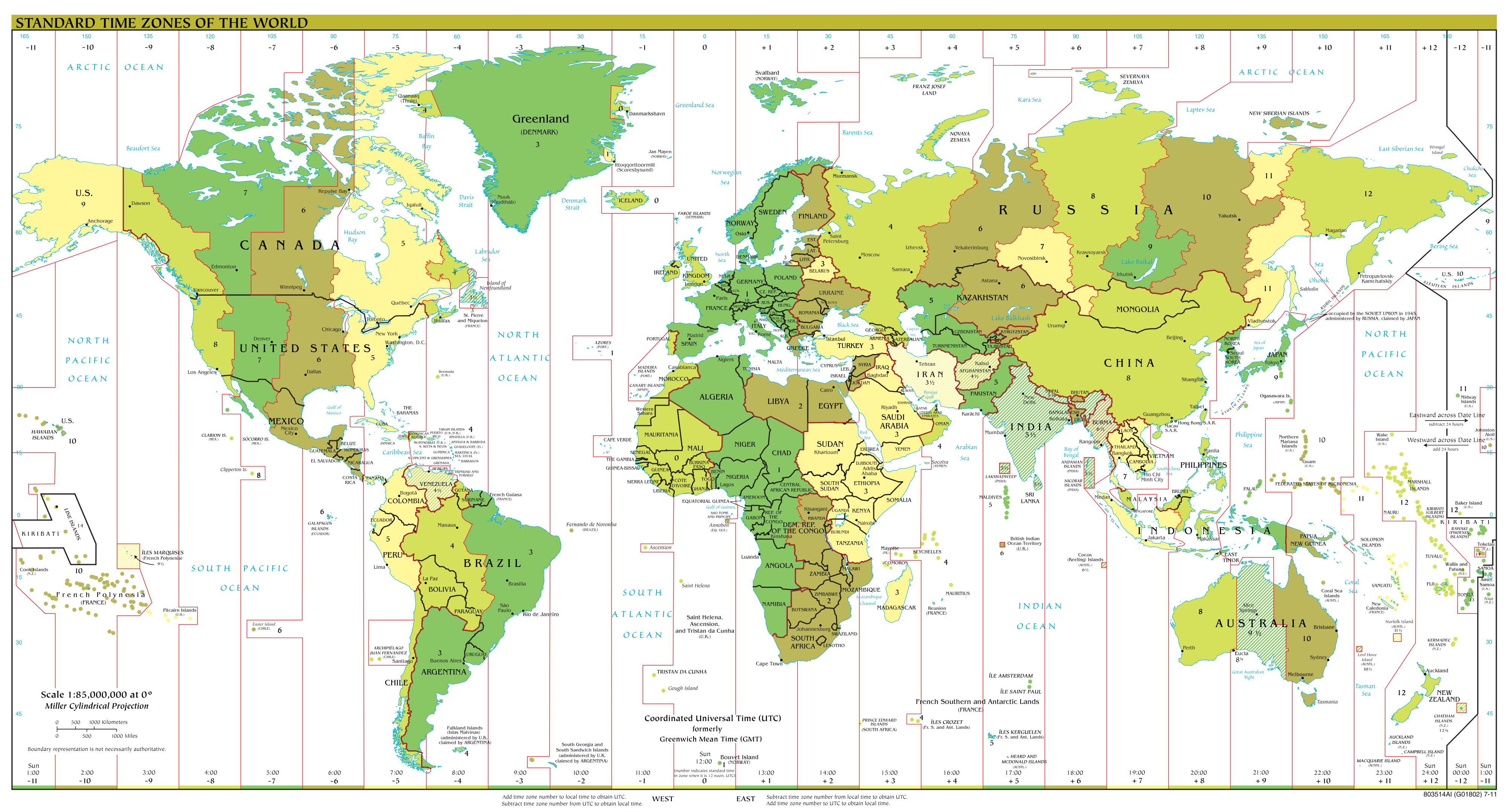 Time zones in the world since September 20, 2011